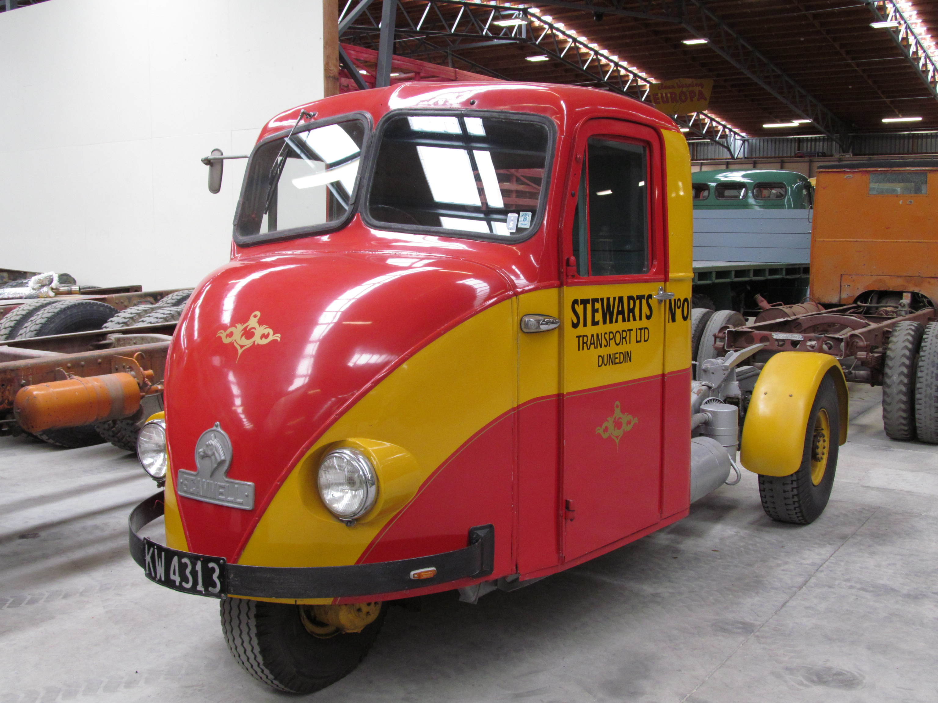 1965 Scammell Scarab dual headlight at Bill Richardson Truck Museum in Invercargill, New Zealand.